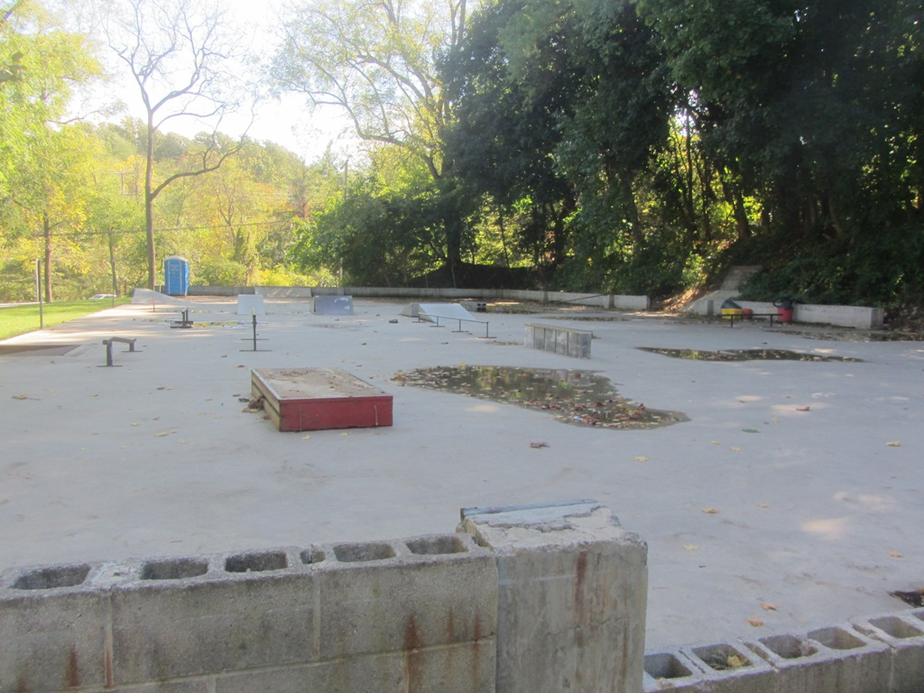 South Branch Park Sykesville SkatePark